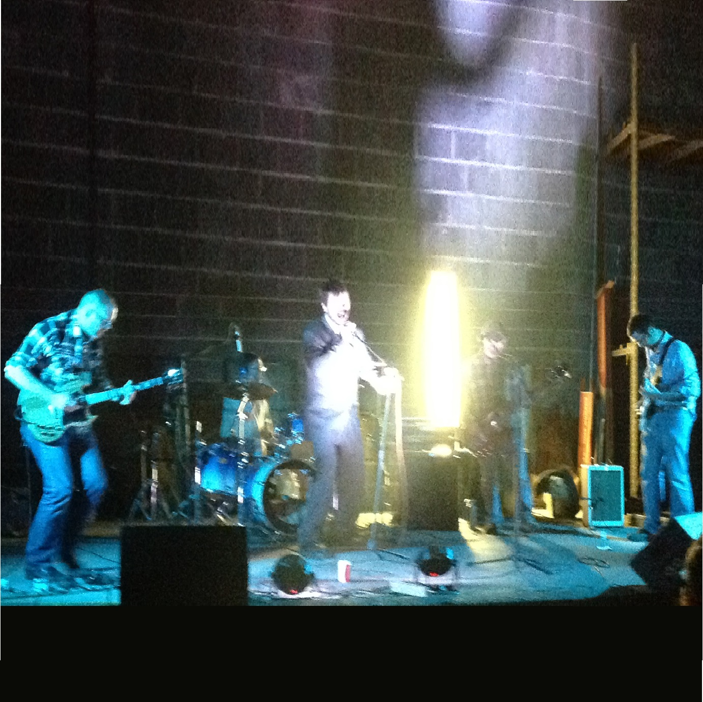 New Jersey band The Multi-Purpose Solution performing live at The Lumberyard in Nutley, N.J. 2013.